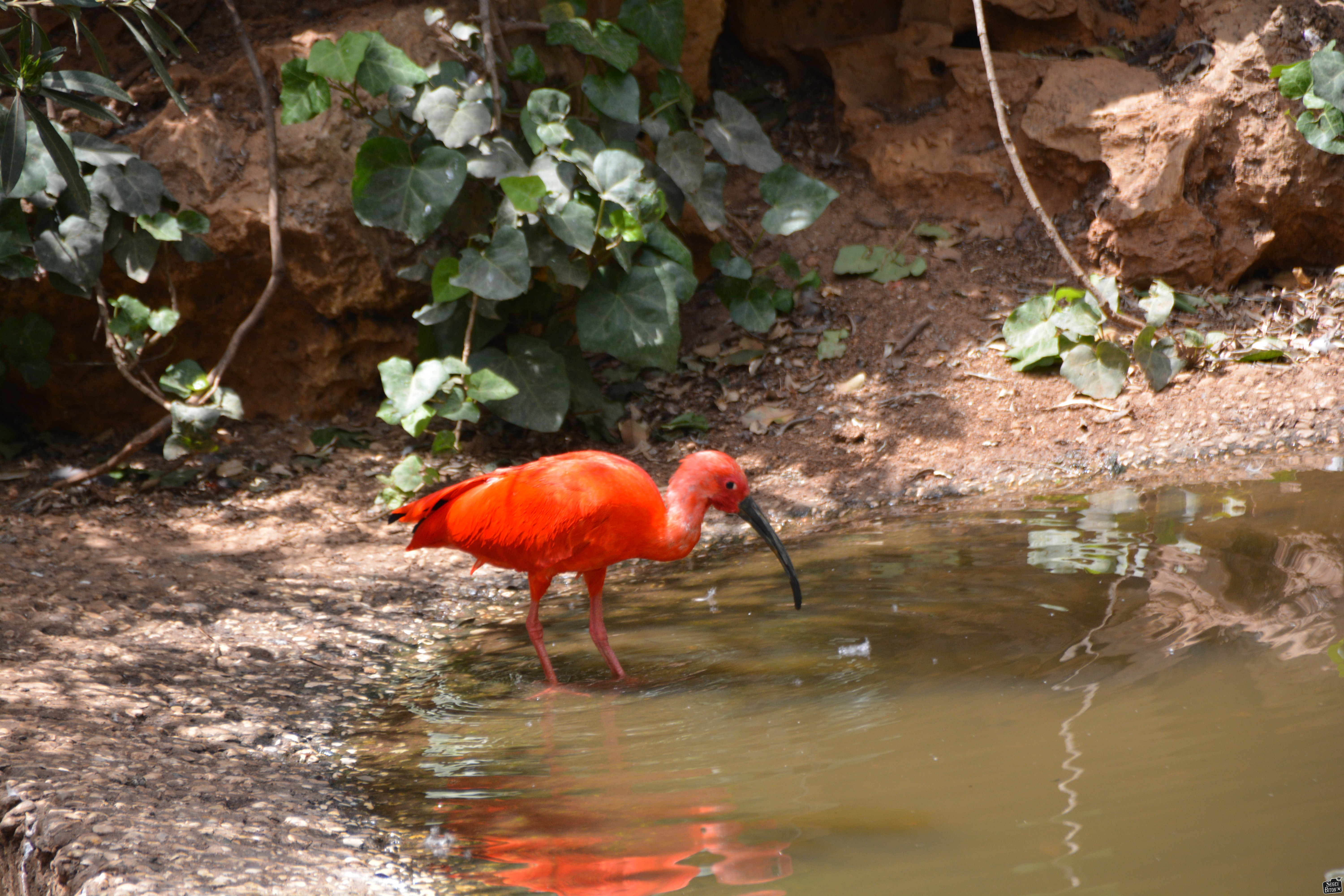 The Biblical Zoo in Jerusalem